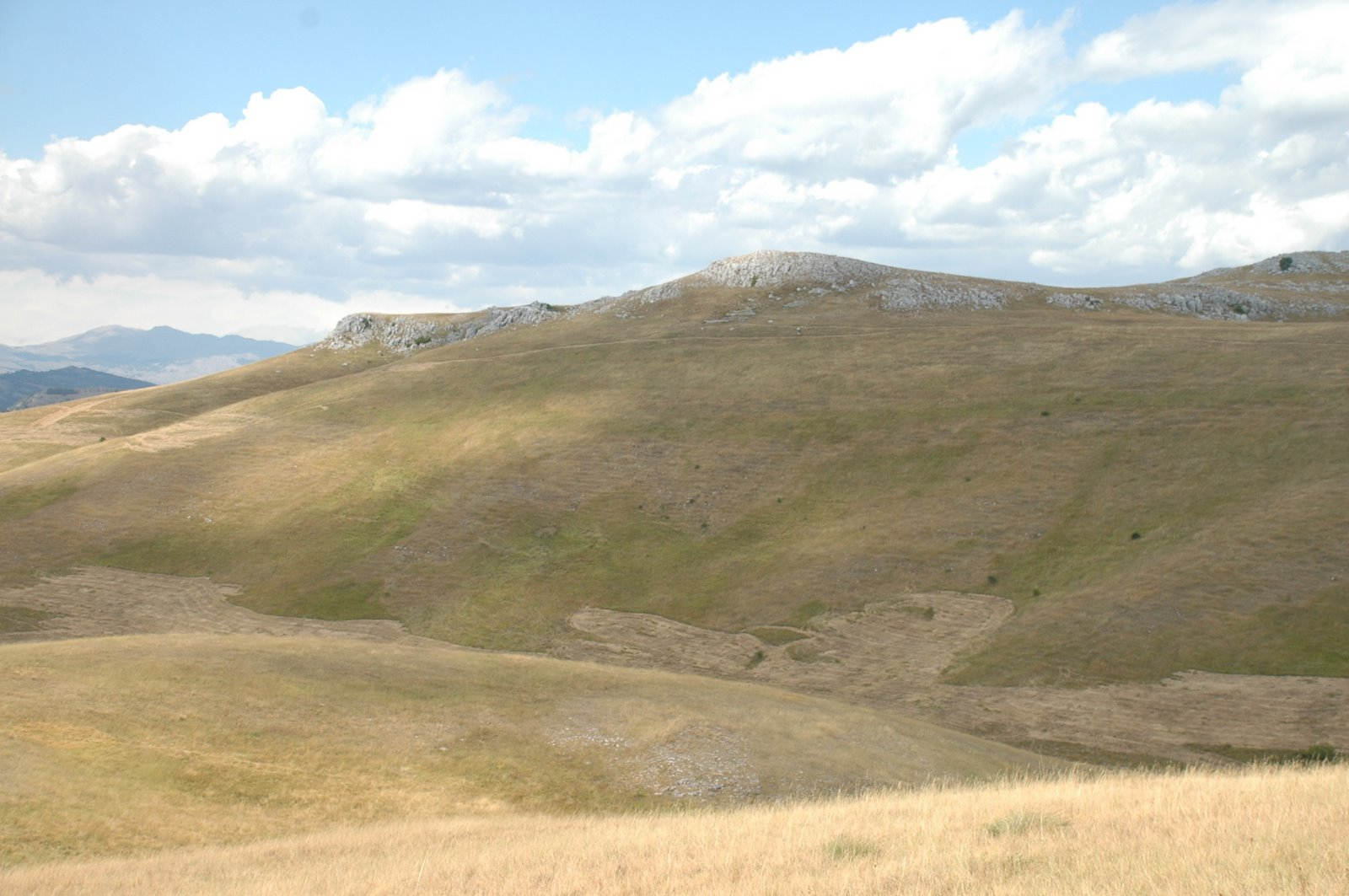 Morine plateau